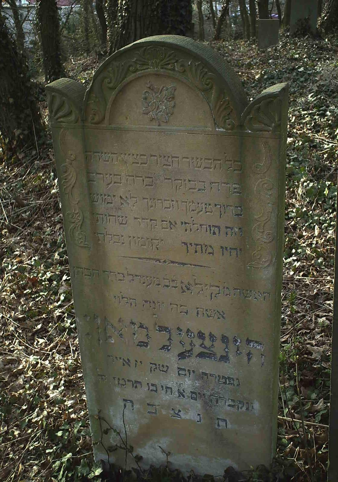 Gravestone with floral ornament. Jewish cemetery, Skwierzyna (lubuskie voivodship), Poland.